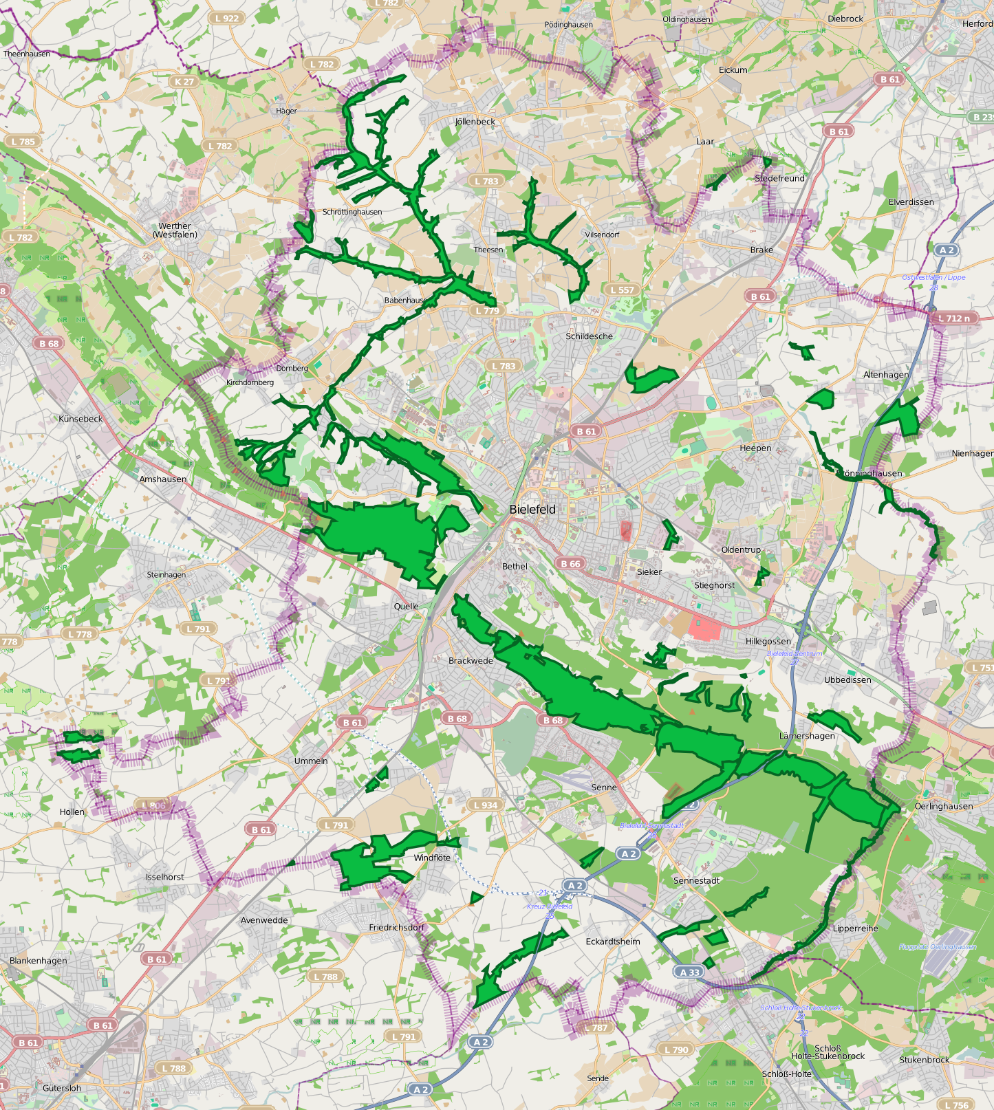 Nature reserves in Bielefeld - overview mapNumber and borders of nature reserves are subject to frequent change. In order to facilitate reproduction of this map from openstreetmap, the following data is stored here: export boundaries: north: 52.12; west: 8.36; east: 8.68; south: 51.9; mapnik svg, scale 1:110.000 nature reserve boundary stroke weight 3.5; nature reserve stroke color: R 5, G 102, B 36; nature reserve fill color: R 10, G 188, B 66, district border stroke weight: 20